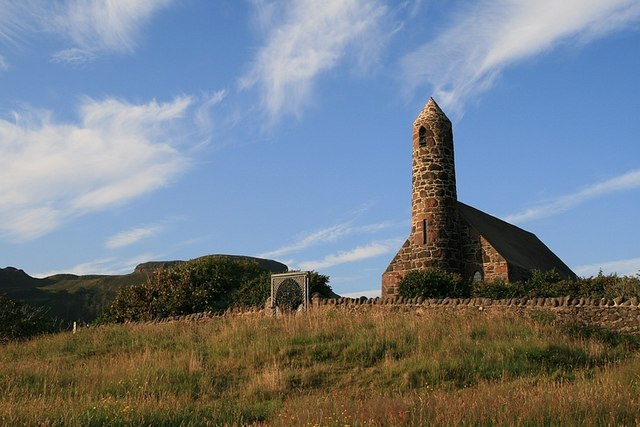 Rocket church, Canna. The small protestant church on the north shore, Canna built even though the islanders are catholic. It is also known as the 'rocket' church and is rarely used.